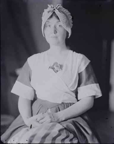 Loraine Wyman, American soprano and folksong fieldworker, as portrayed by photographer Paul Burty-Haviland wearing representative performance attire (here, Breton peasant costume), some time in the mid 1910's.